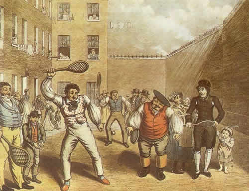 An early gentleman playing rackets with the rabble